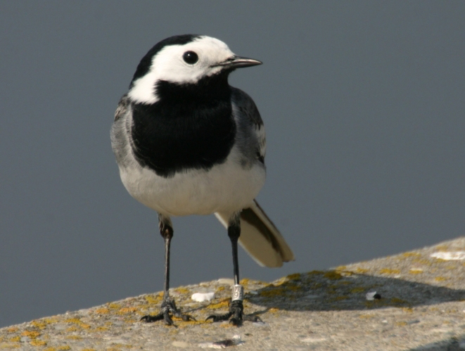 White Wagtail (Motacilla alba), Mekszikópuszta, Hungary